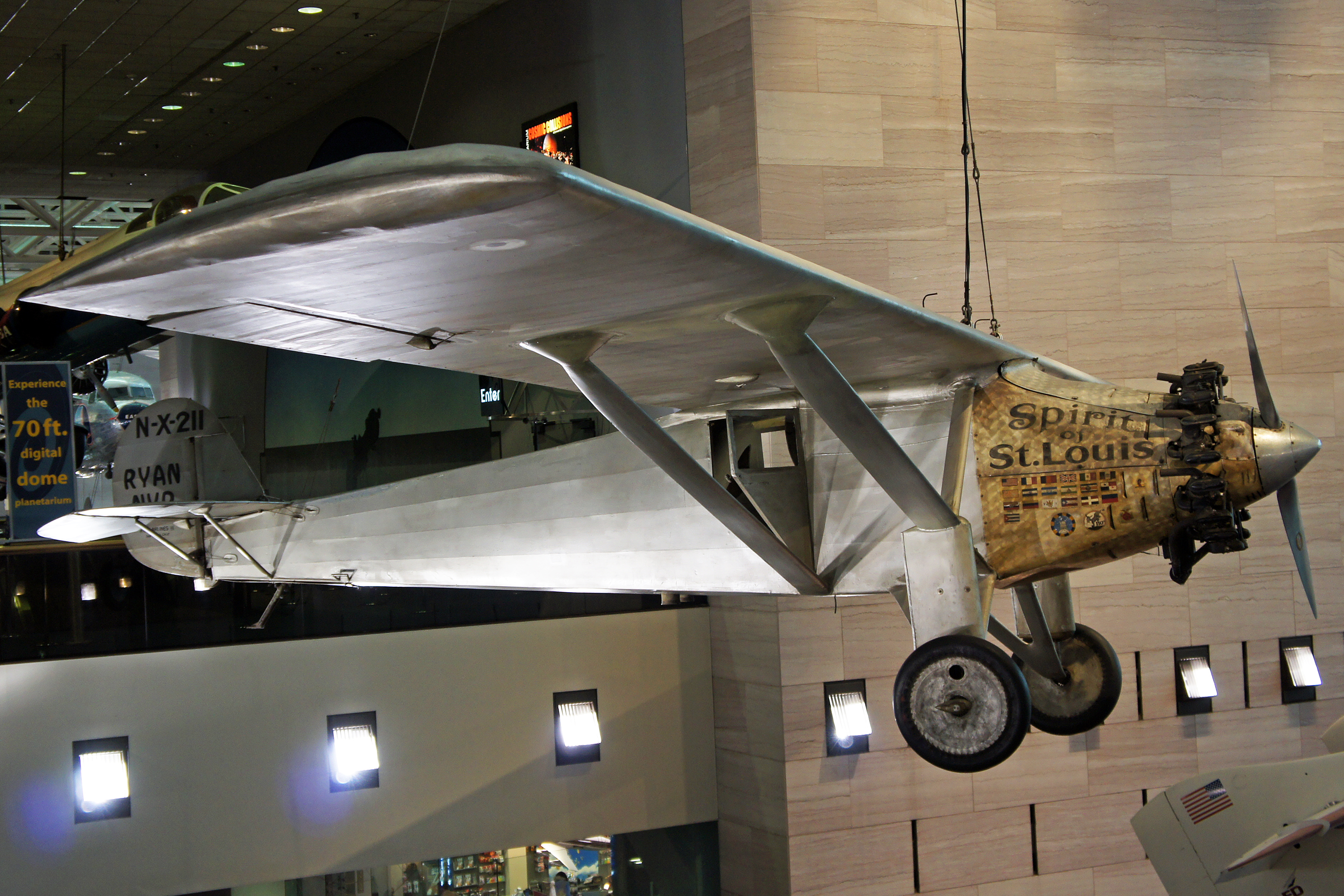 Spirit of St. Louis at the National Air and Space Museum, Washington D.C.